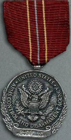 US Arms Control and Disarmament Agency Superior Honor Award medal. The Superior Honor Award was an award of the United States Arms Control and Disarmament Agency, an independent agency charged with implementing and verifying arms control strategies which has since been merged into the Department of State. This award has been replaced with the State Department's Superior Honor Award. This award was presented to groups or individuals in recognition of a special act or service or sustained extraordinary performance covering a period of one year or longer.